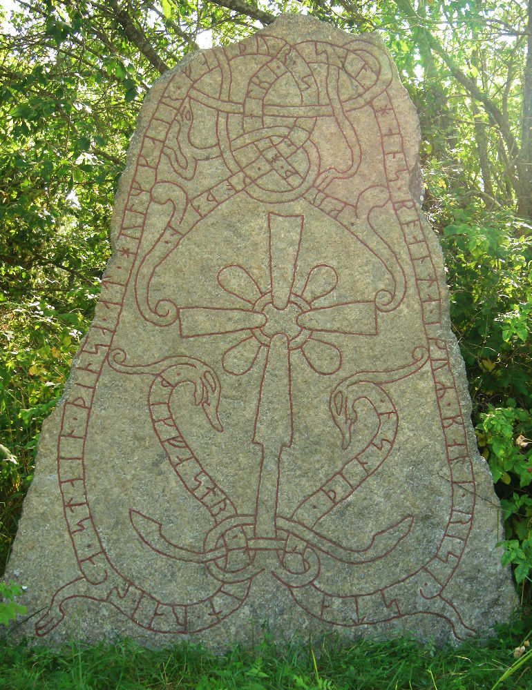 runic stone Upplands runinskrifter 873